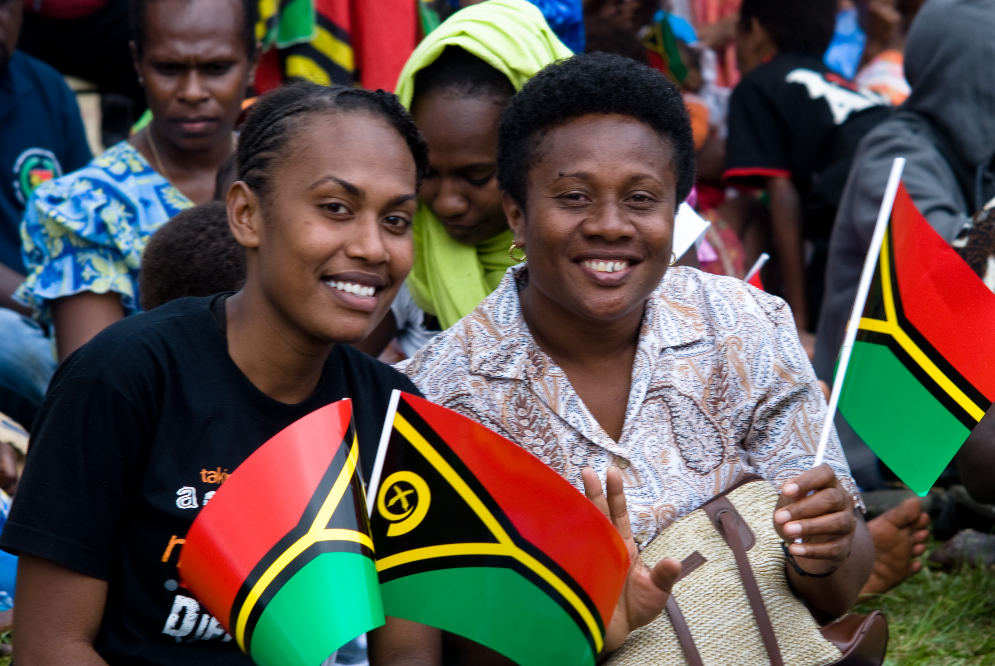 Happy Independence, Vanuatu!